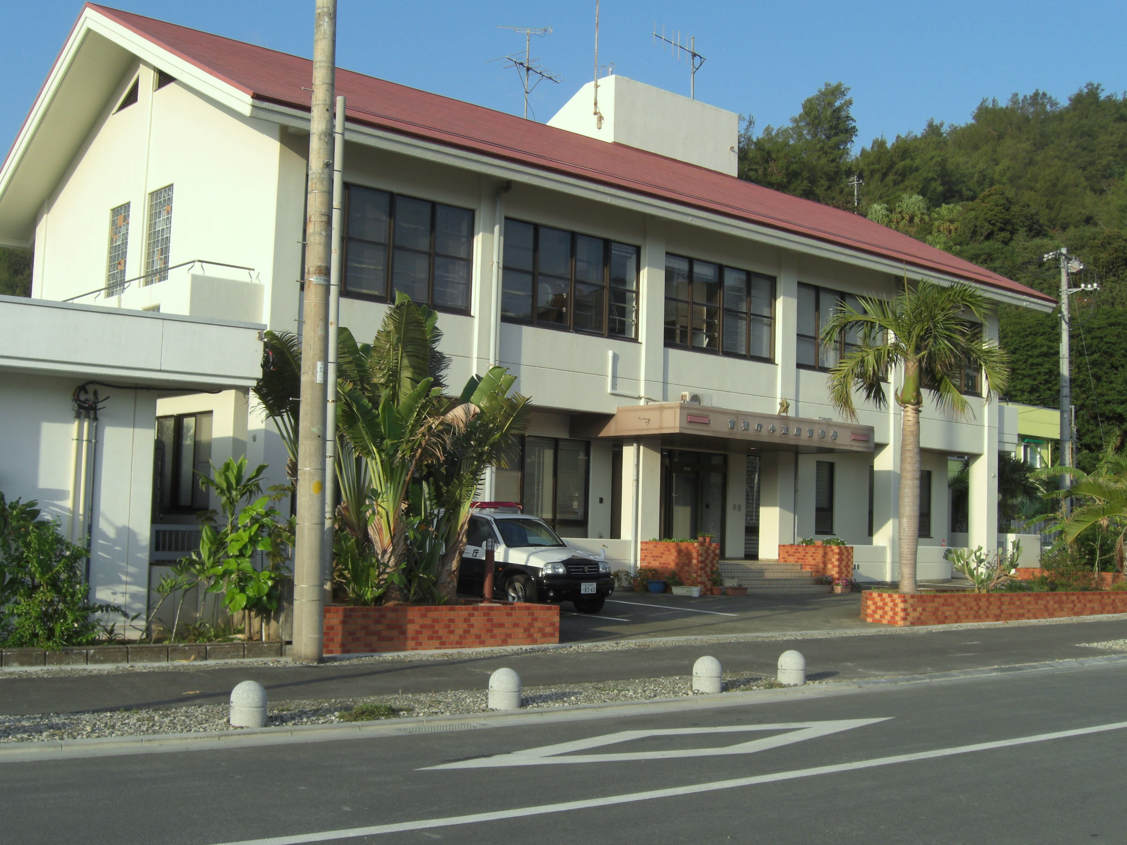 Ogasawara Police station